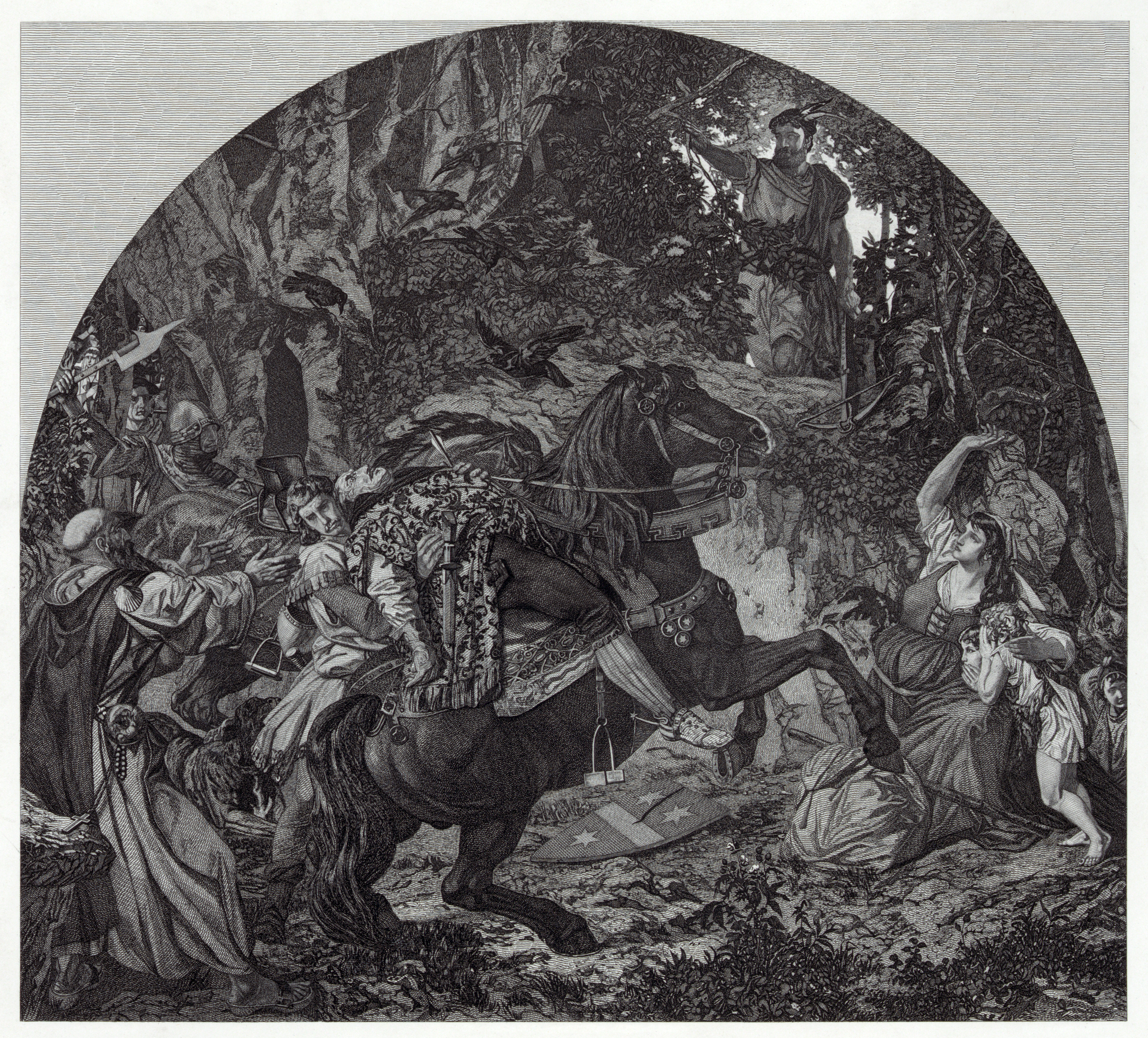 An engraving depicting the death of Albrecht Gessler (center, seated on horse) at the hand of William Tell (upper right).